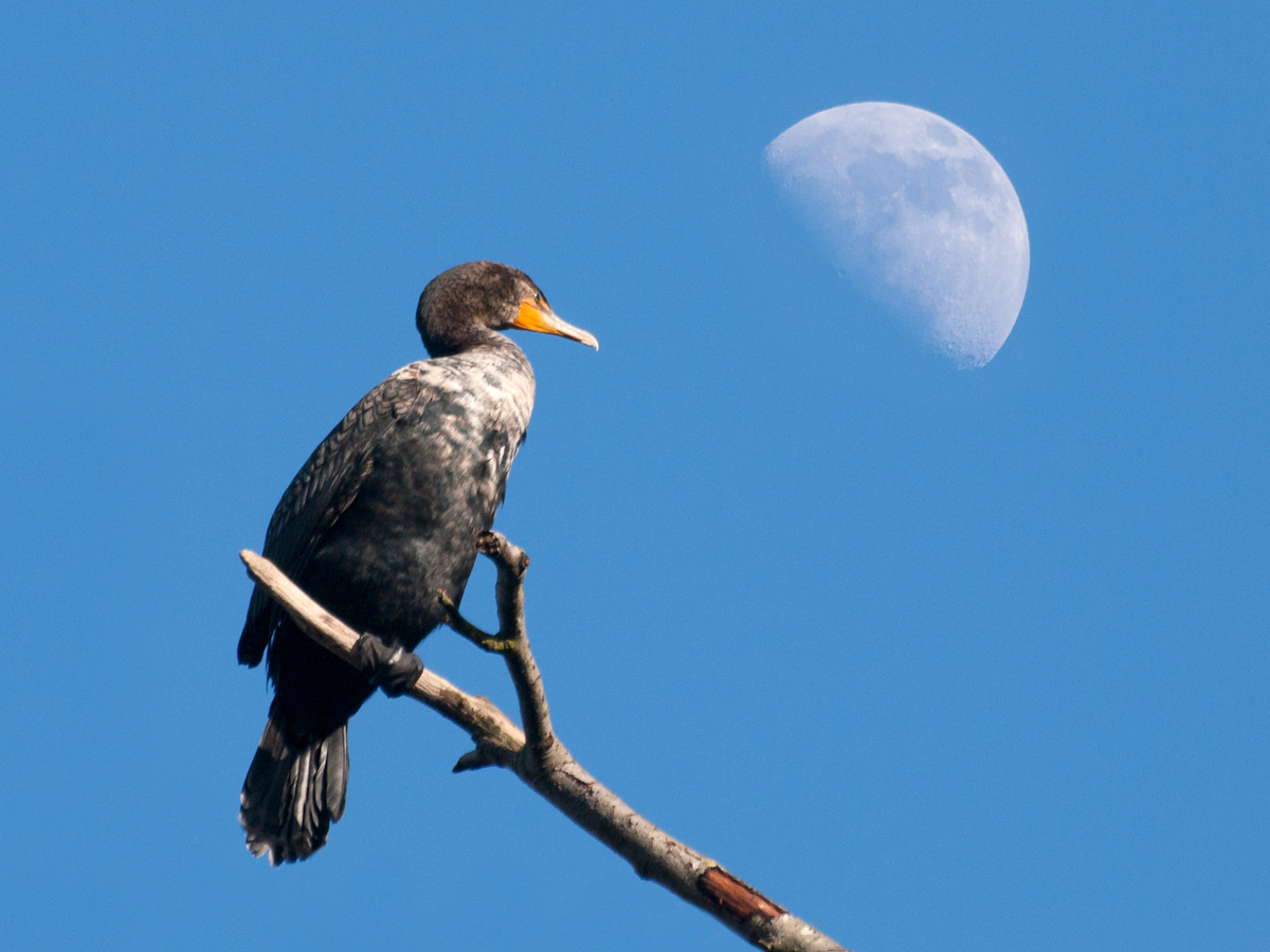 A slightly different perspective in my growing moon gallery. My previous cormorant-moon experiment: Moon Roost. The above was photographed at the Ballard Locks as the moon was rising above the perched Double-crested Cormorants (Phalacrocorax auritus ). I usually prefer to shoot one exposure, but owing to the mechanics of placement, it's obviously tough to get both the foreground and moon in focus, even at a high f-stop. So, to represent what my eye saw, I shot two exposures, one for focus on the cormorant, and one focusing on the moon. The shots were identical except for the sharpness of the moon. I pasted the original cormorant shot below. It shows the image before I layered/masked the focused moon in Photoshop.